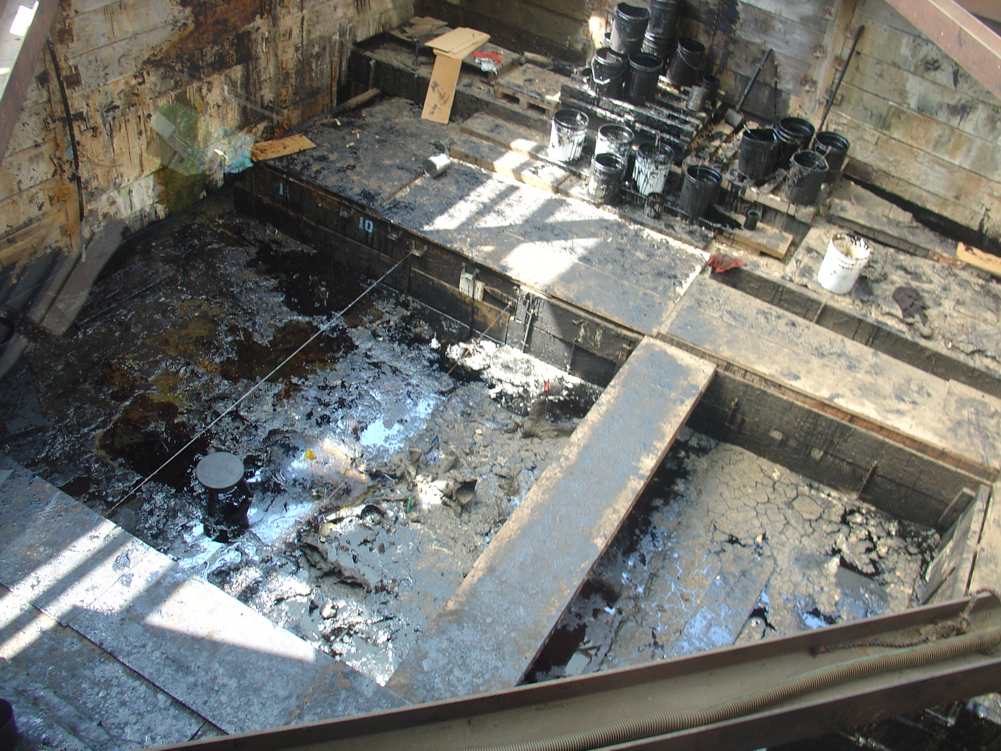 Active excavation area at the La Brea Tar Pits in Los Angeles, California. Note scaffolding over asphalt-filled pits.